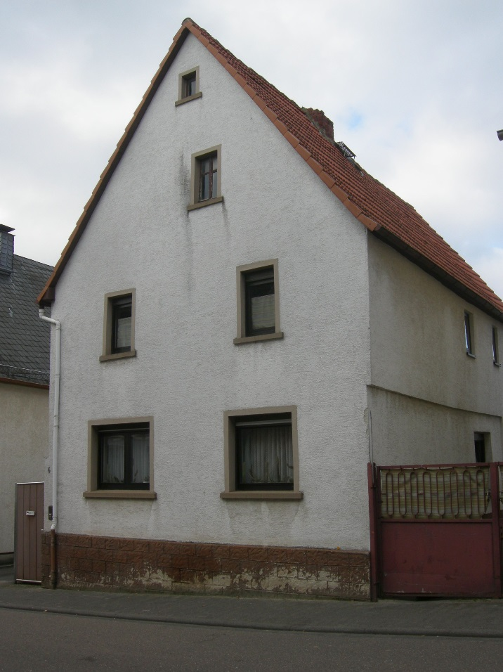 House Schulstrasse Nr. 6 in Bad Camberg, Germany